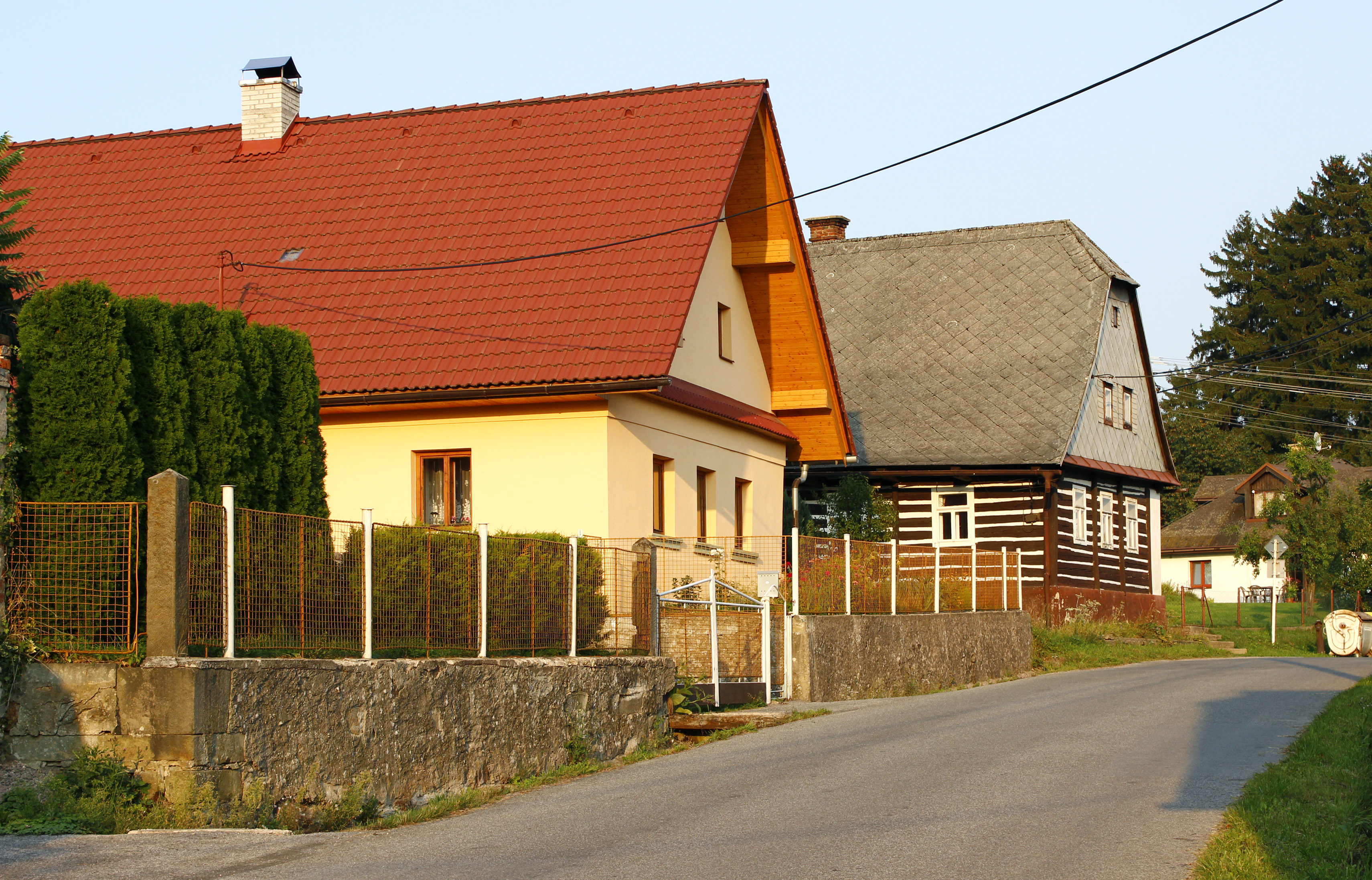 Old and new house in Liberk, Czech Republic